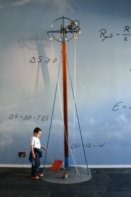 A child is playing with a mechanical artifact (a Lariat chain). Inside Museu de la Ciencia, Barcelona.